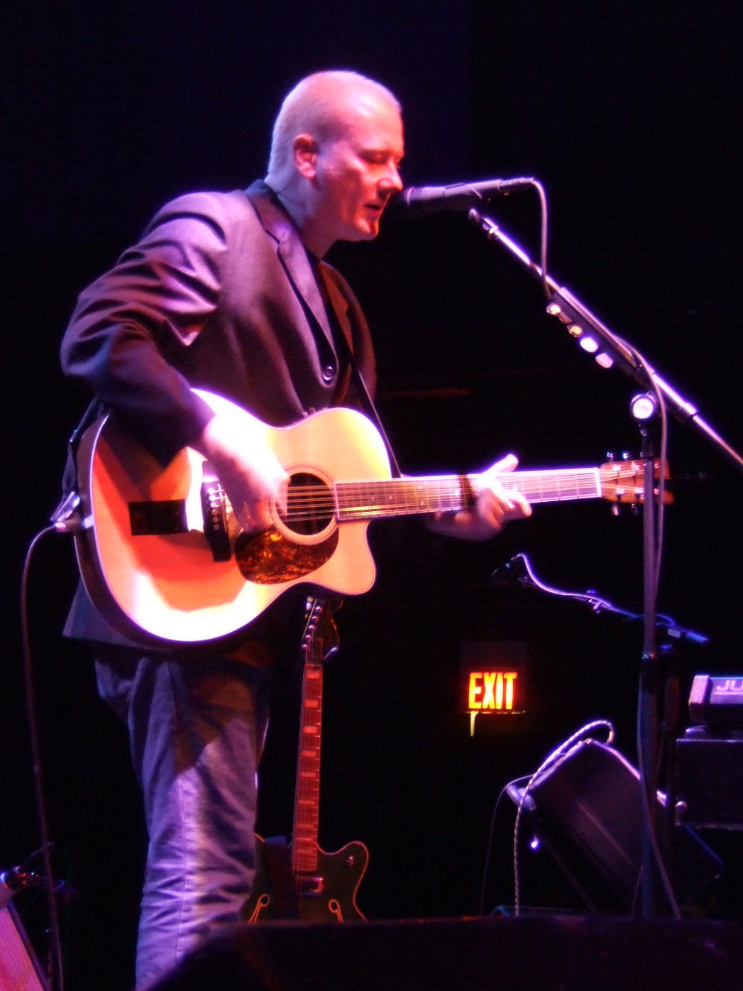 Photo of musician Mike Doughty, performing with acoustic guitar at the 9:30 Club in Washington, DC, USA on 5 April 2008.